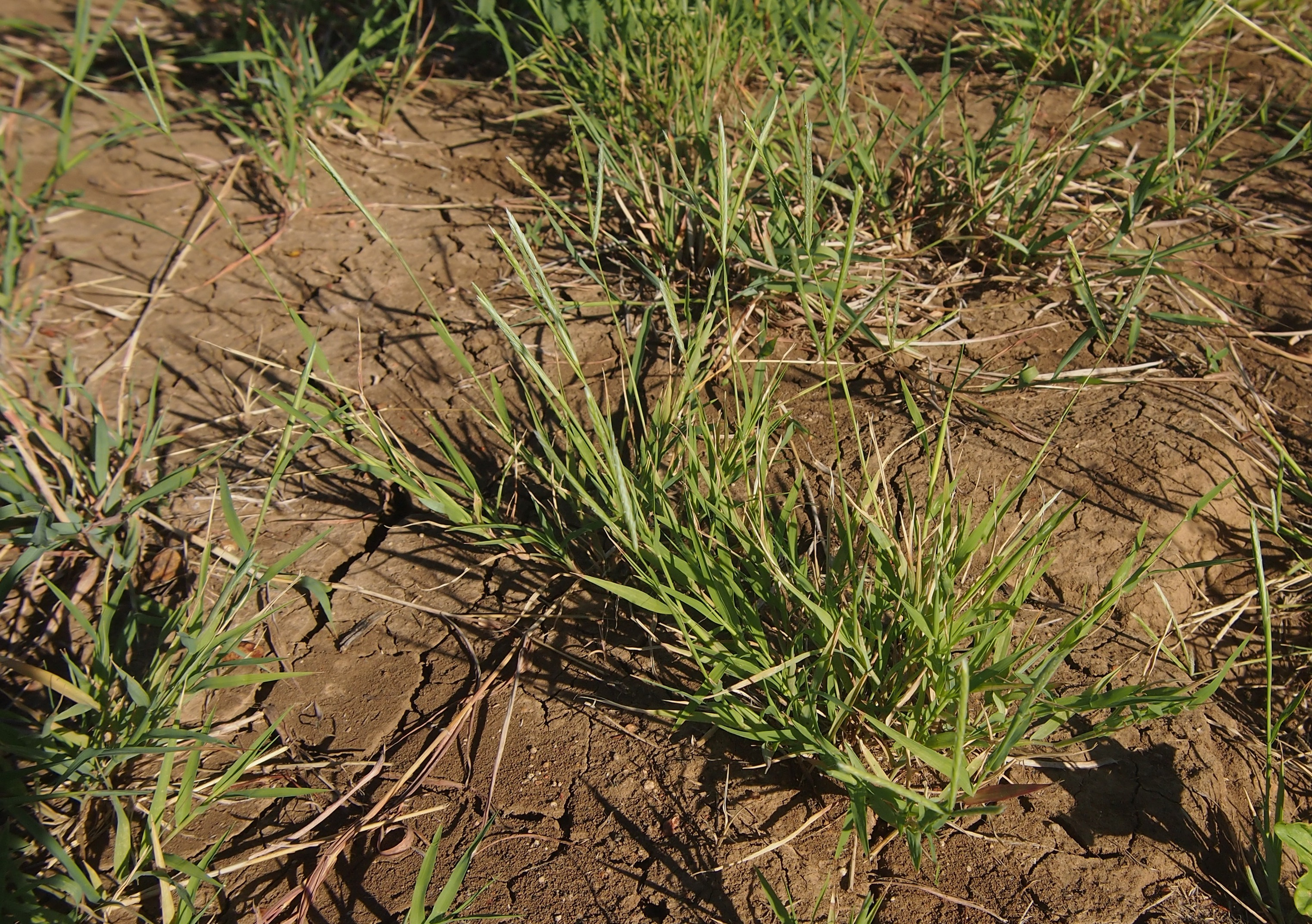 Brachyachne convergens habit